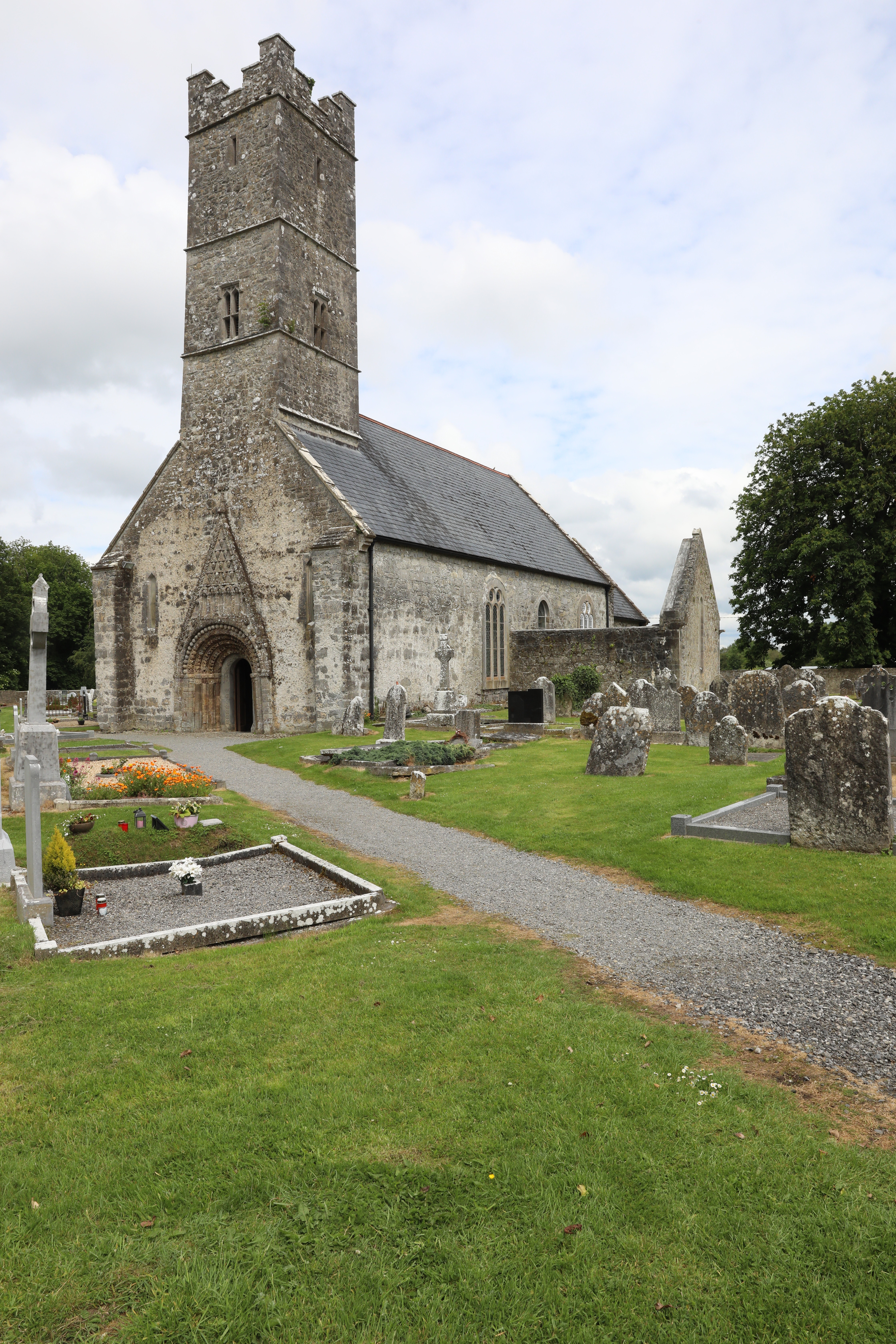 Kathedrale von Clonfert